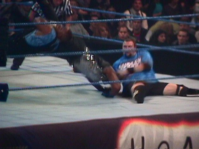 Dudley Boyz WWF (WWE) Smackdown photo do you know the wrestlers?